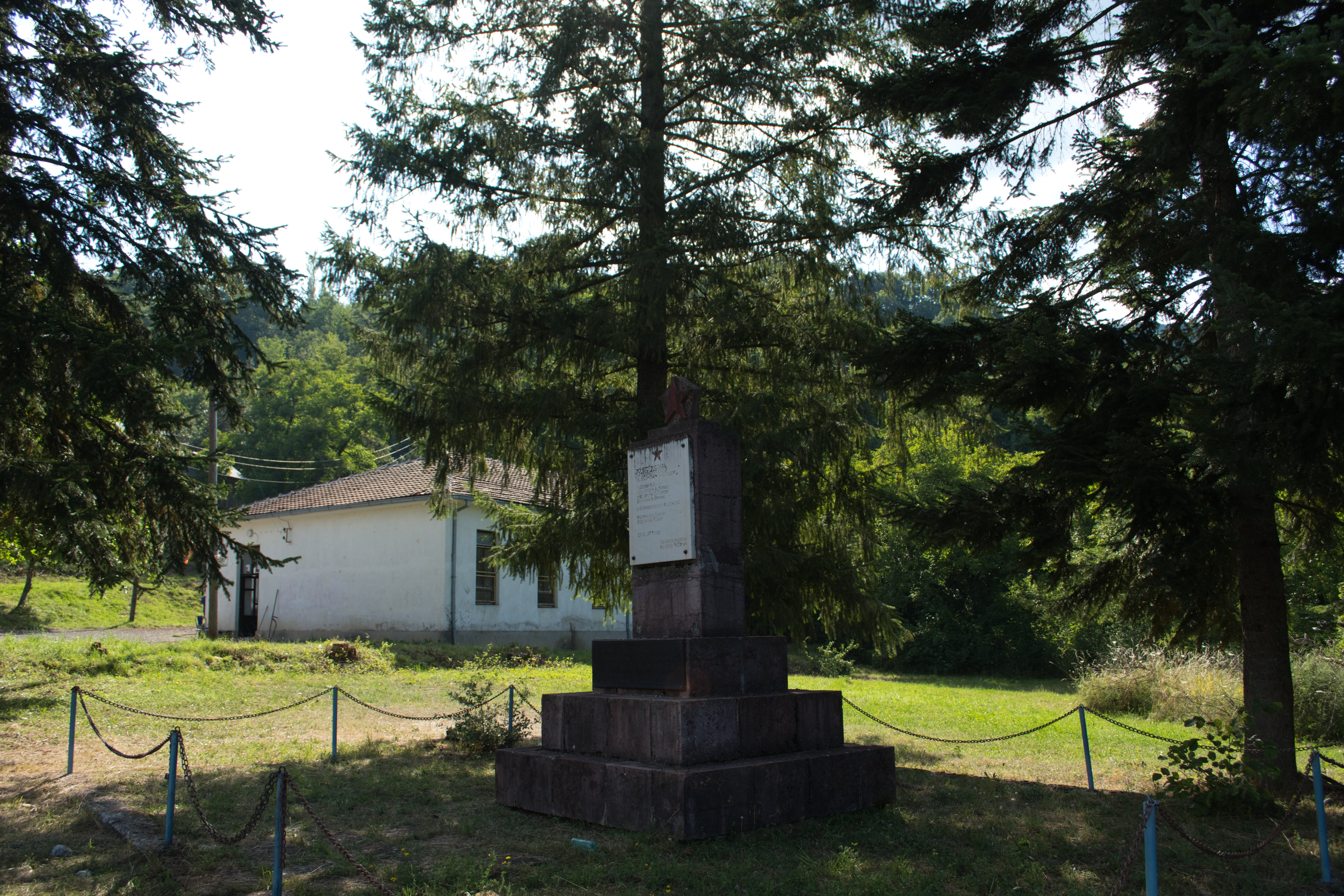 World War II monument in the village of Modrič